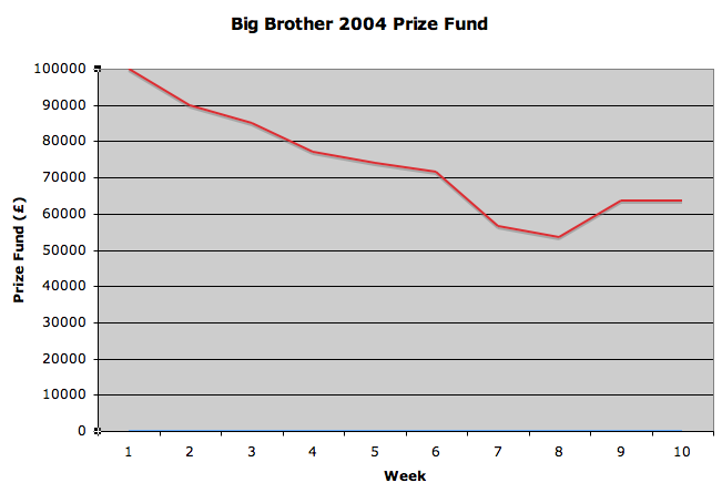 A graph of the BB5UK prize fund.